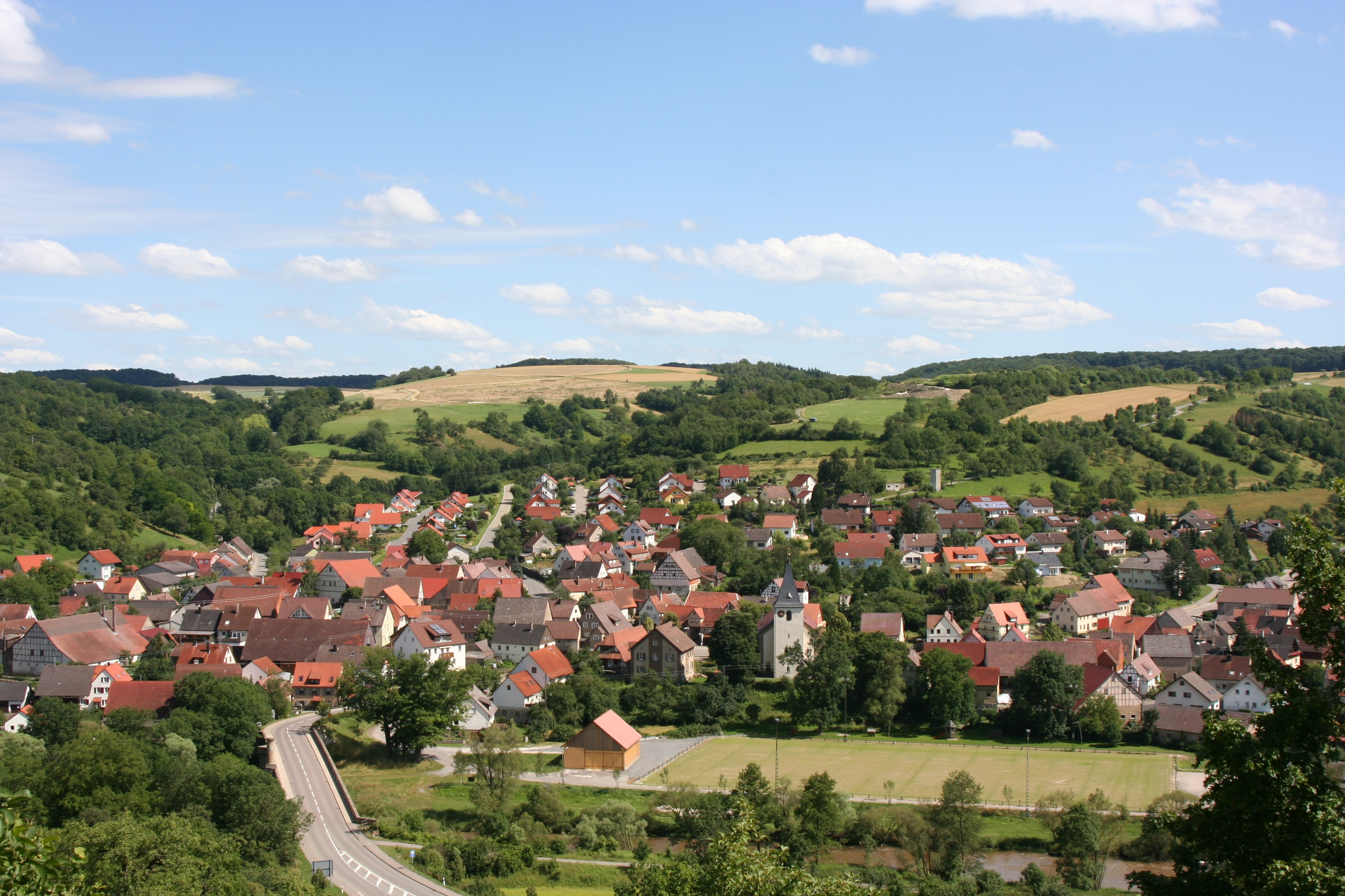 Hohebach, part of Dörzbach, from the North